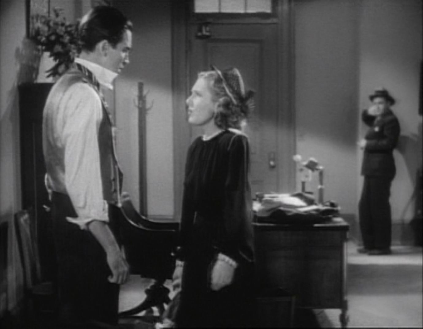 James Stewart and Jean Arthur in a scene from Mr. Smith Goes to Washington (1939). Arthur is wearing a costume designed by costume designer Robert Kalloch.